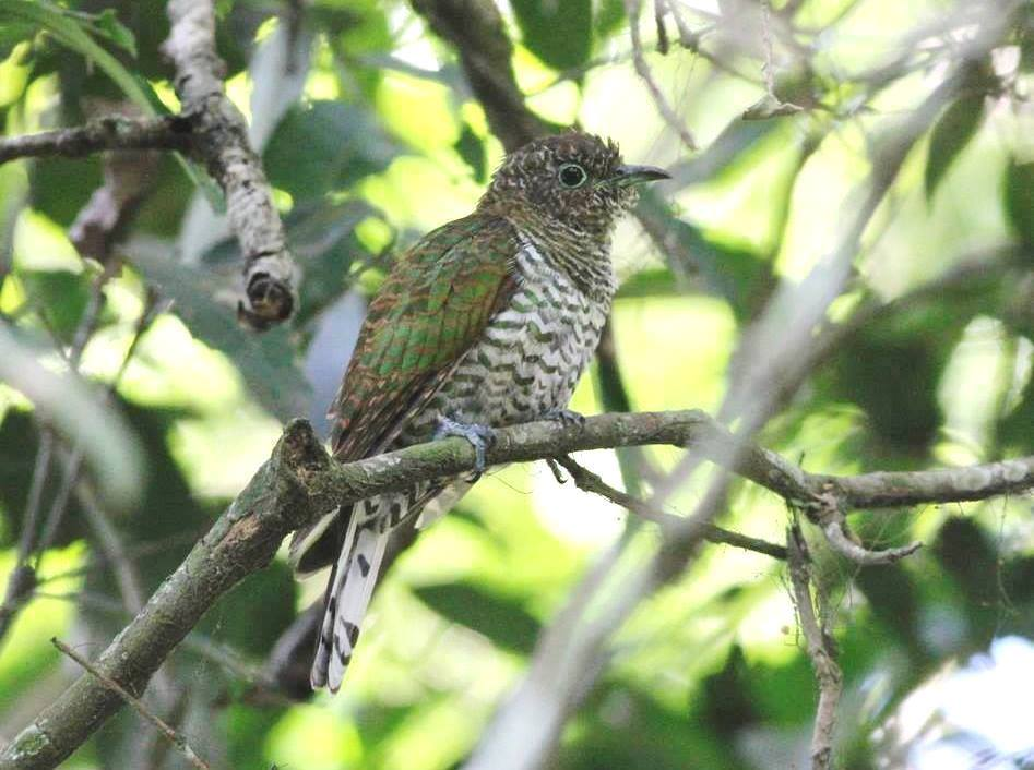 A female Emerald cuckoo at Eshowe, KwaZulu-Natal, South Africa